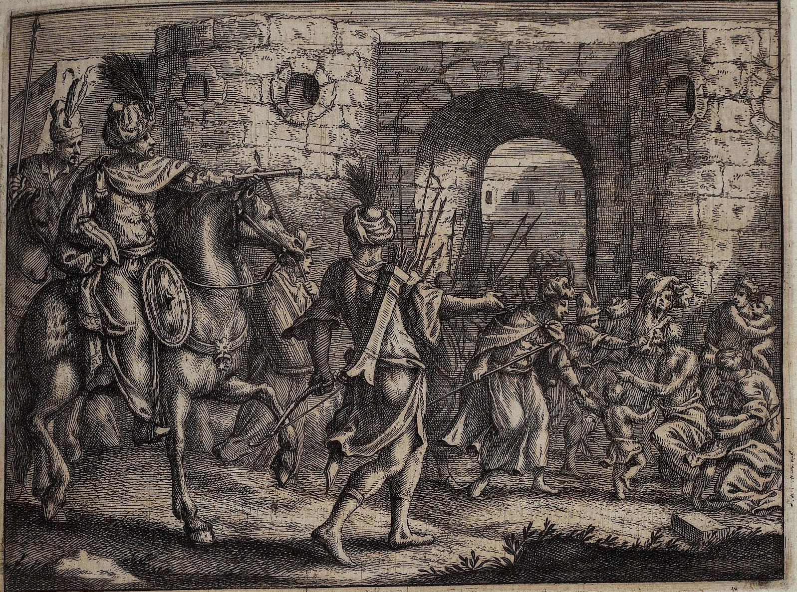 Osman Gazi seizes the Byzantine fortress